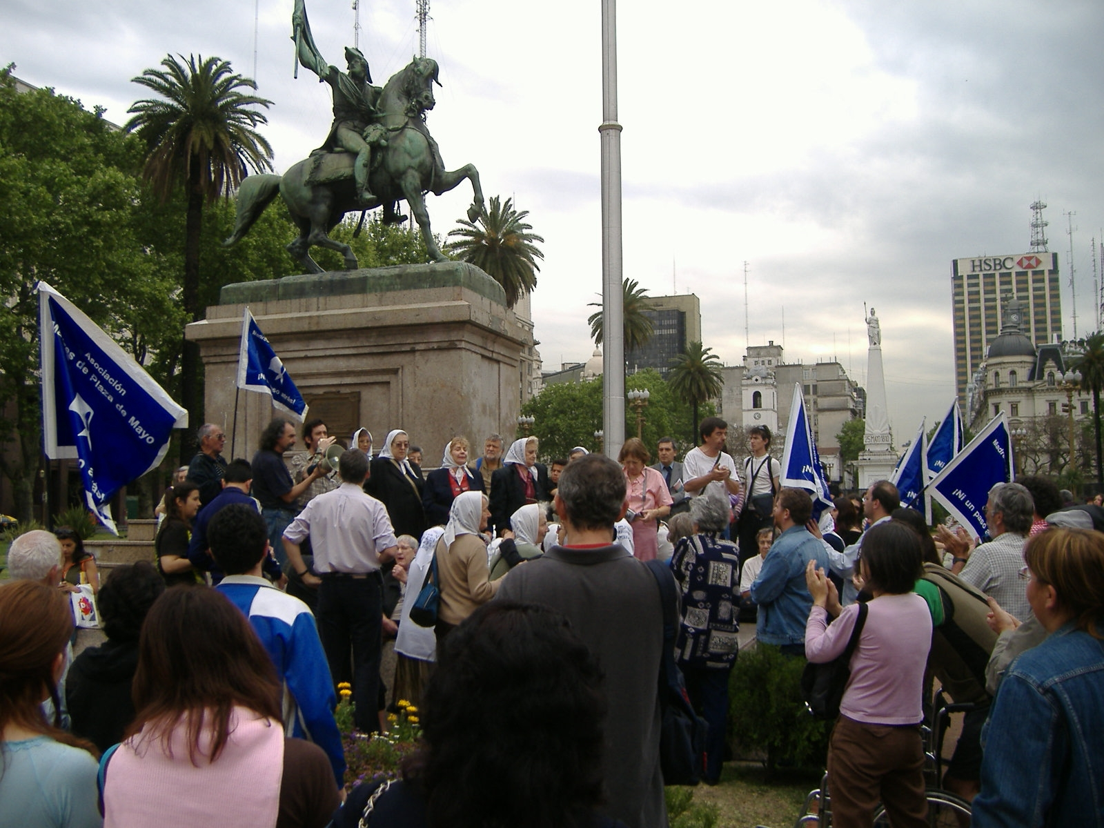 Act of the Mothers of Plaza de Mayo